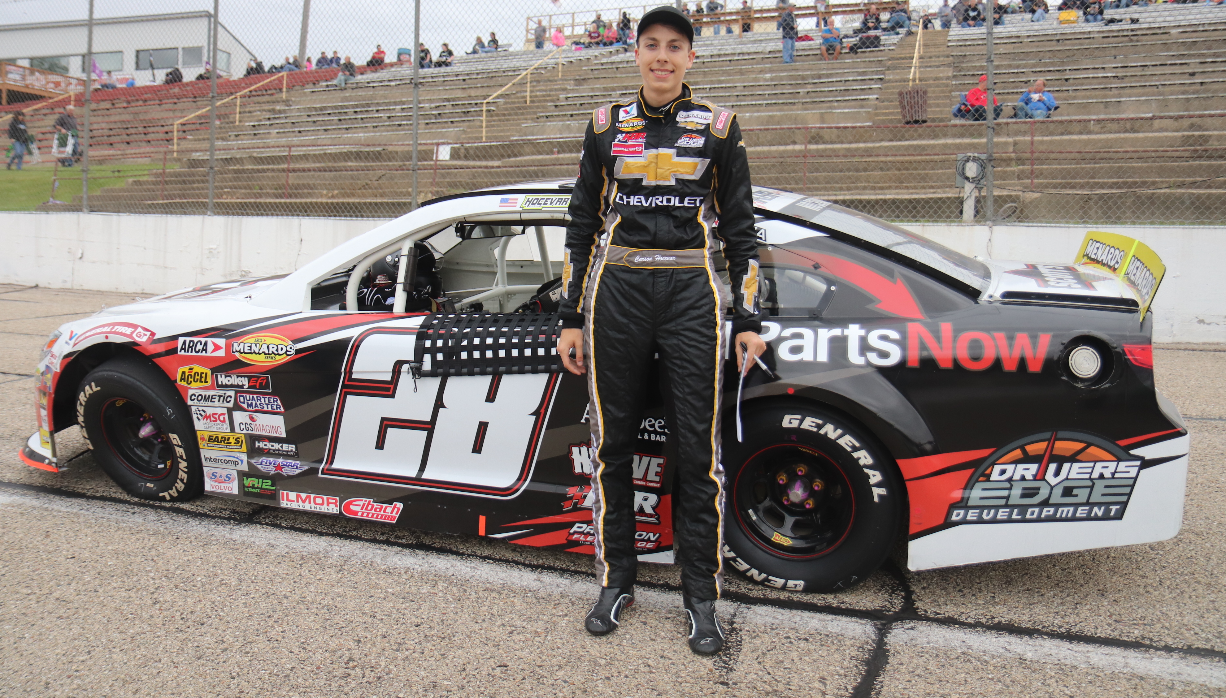 Carson Hocevar beside his #28 Chevrolet SS ARCA car at Madison International Speedway.